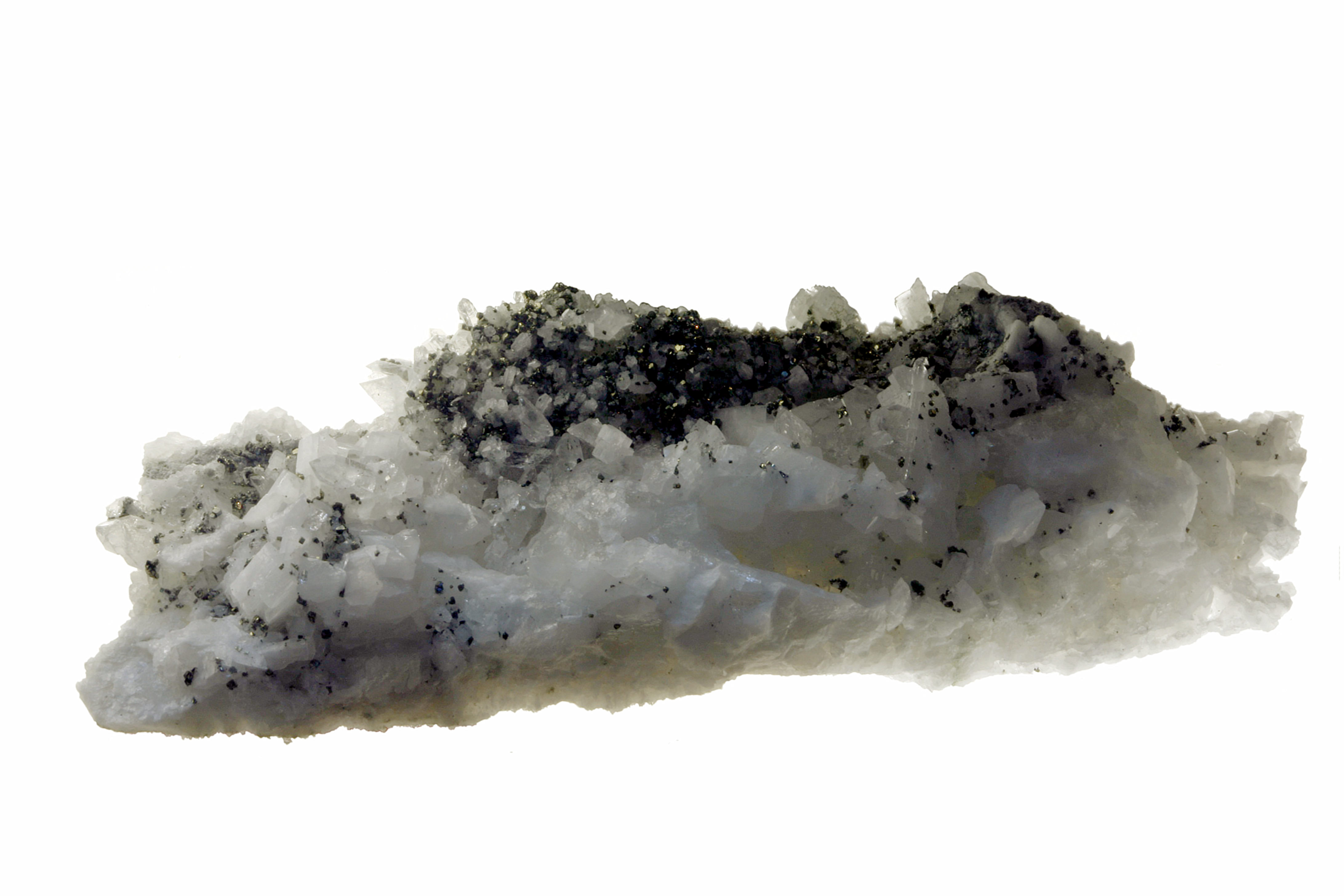 Adularia with pyrite. Photographed at Gotthard Base Tunnel exhibition.